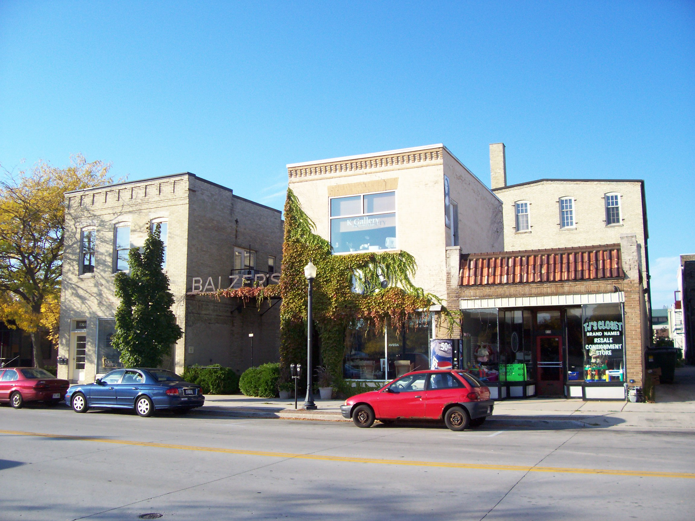 Looking north at the John Balzer Wagon Works Complex in downtown Sheboygan, Wisconsin.